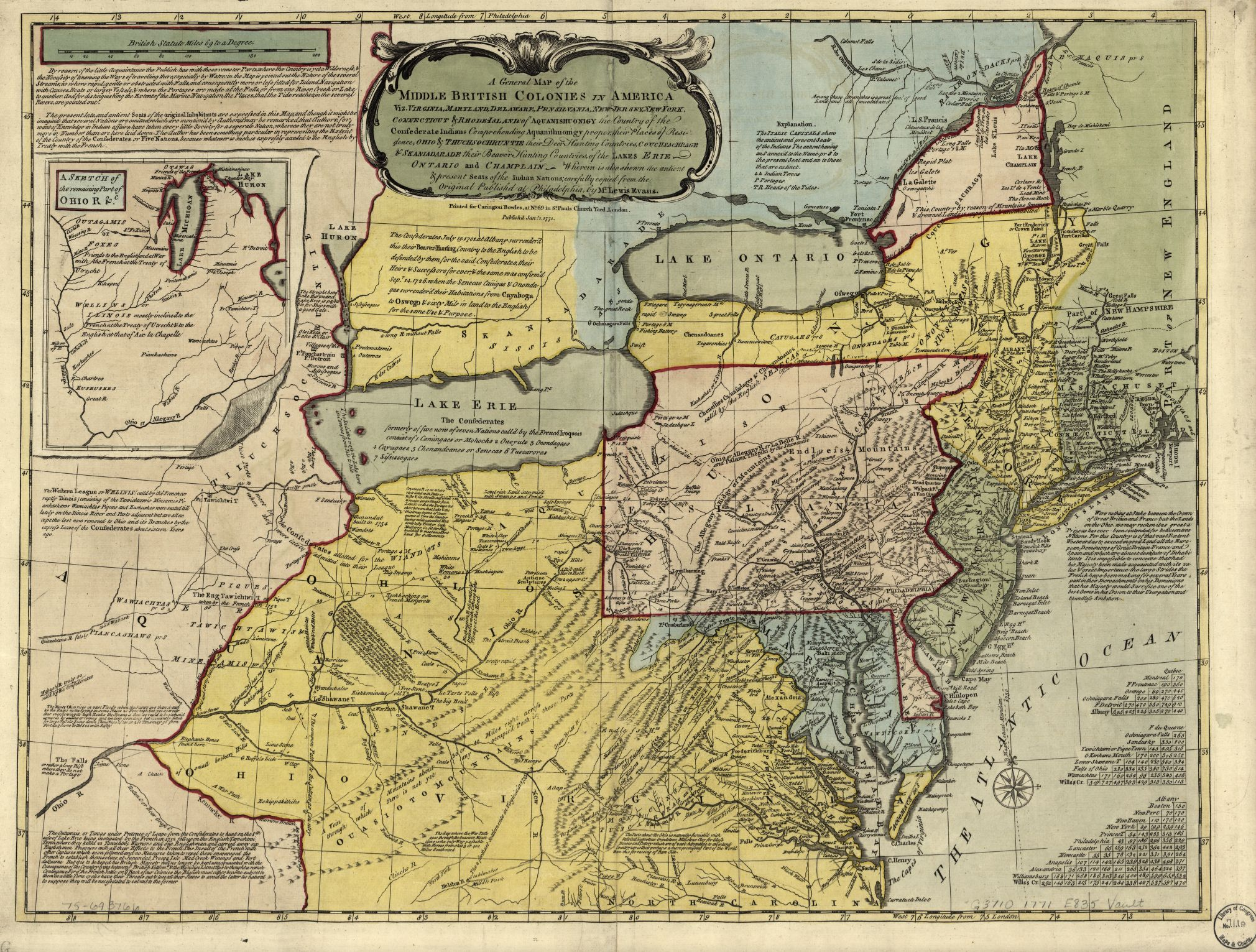 A general map of the middle British colonies in America